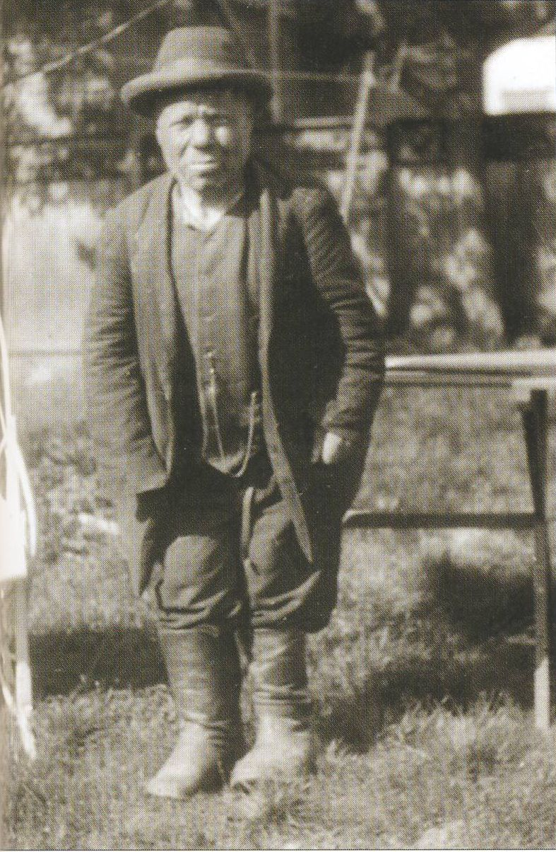 Korppu-Vihtori about 1930